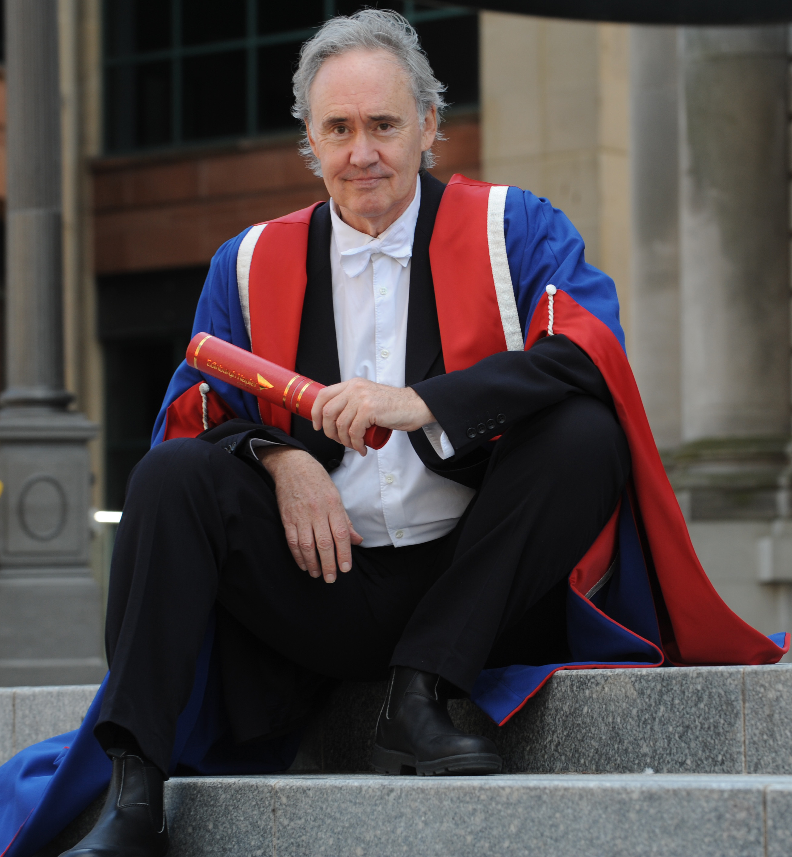 Honorary Graduation with Doctorate of Arts from Edinburgh Napier University